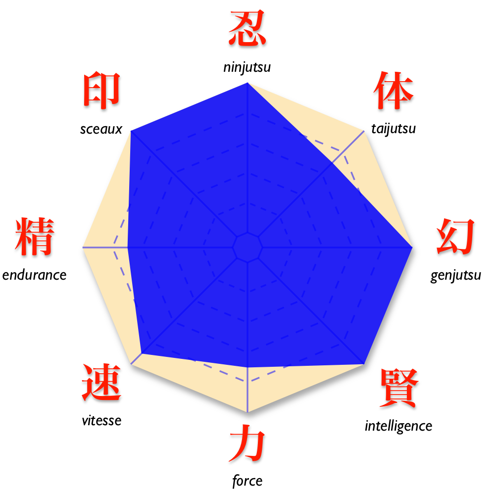 "Naruto" manga - Character "Orochimaru" - Capabilities diagram from Official Databooks data